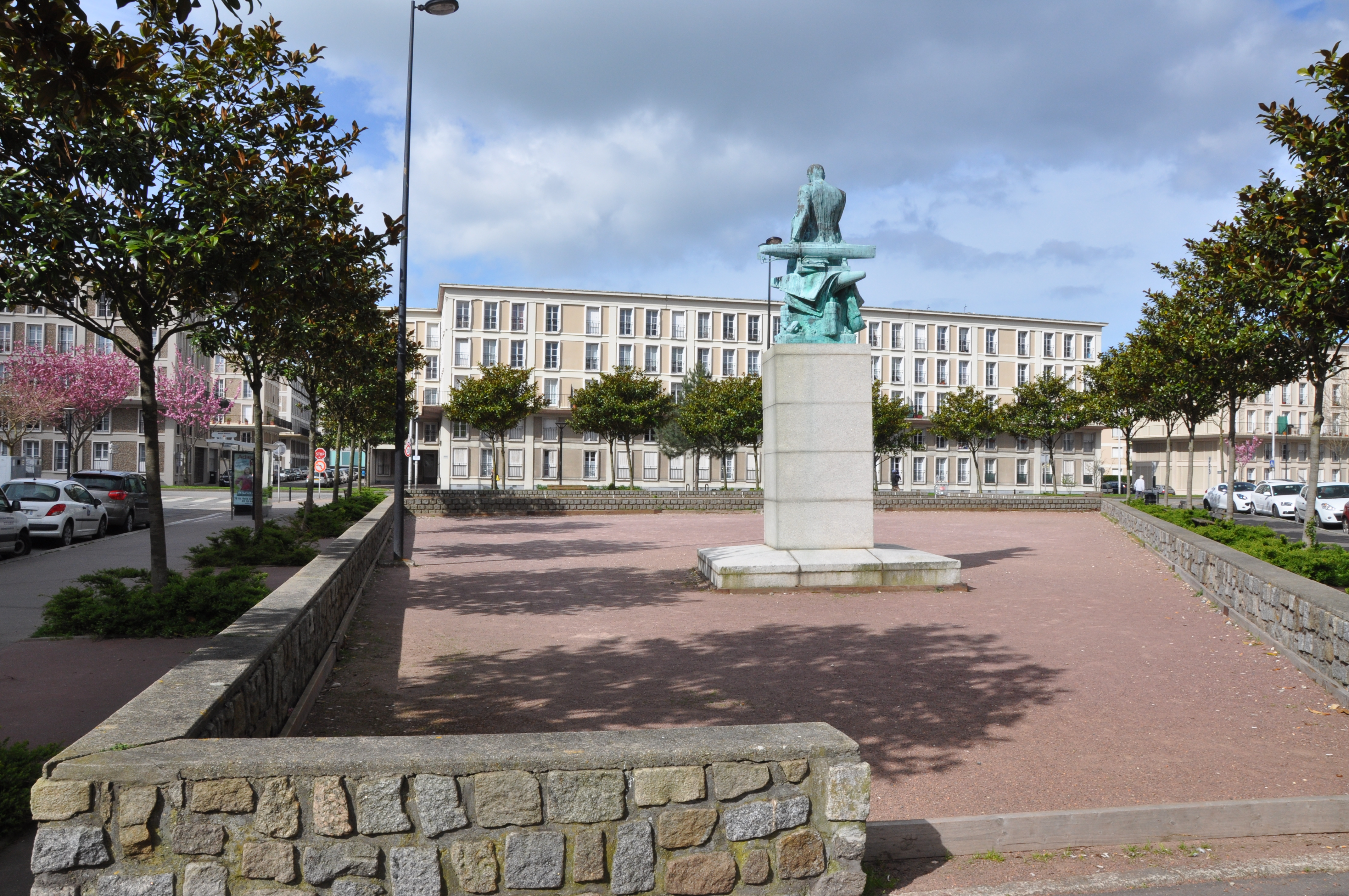 Le Havre (France, Normandy), square of the Commune and statue of Augustin Normand